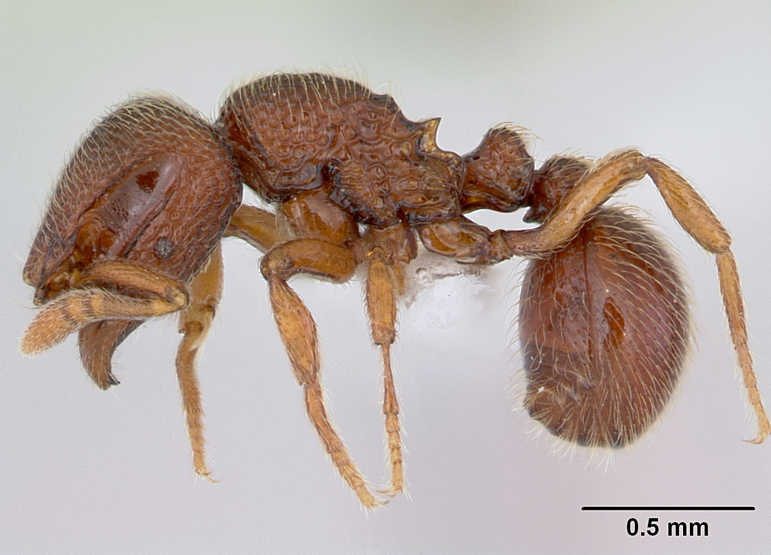 Profile view of ant Dicroaspis cryptocera specimen casent0401720.